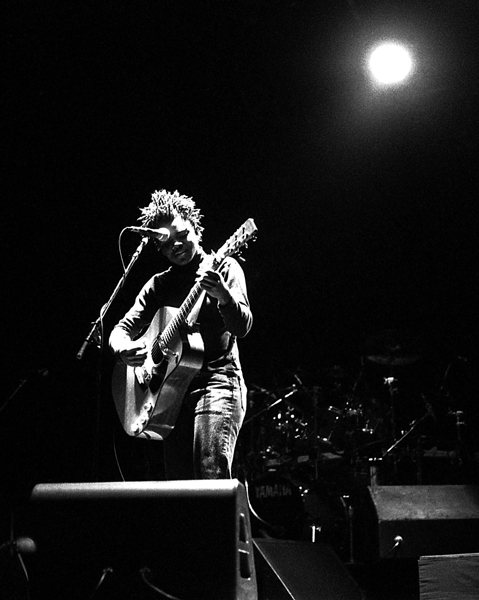 Tracy Chapman 6th September 1988. Human Rights Now! Concert. "Népstadion" venue in Budapest, Hungary.